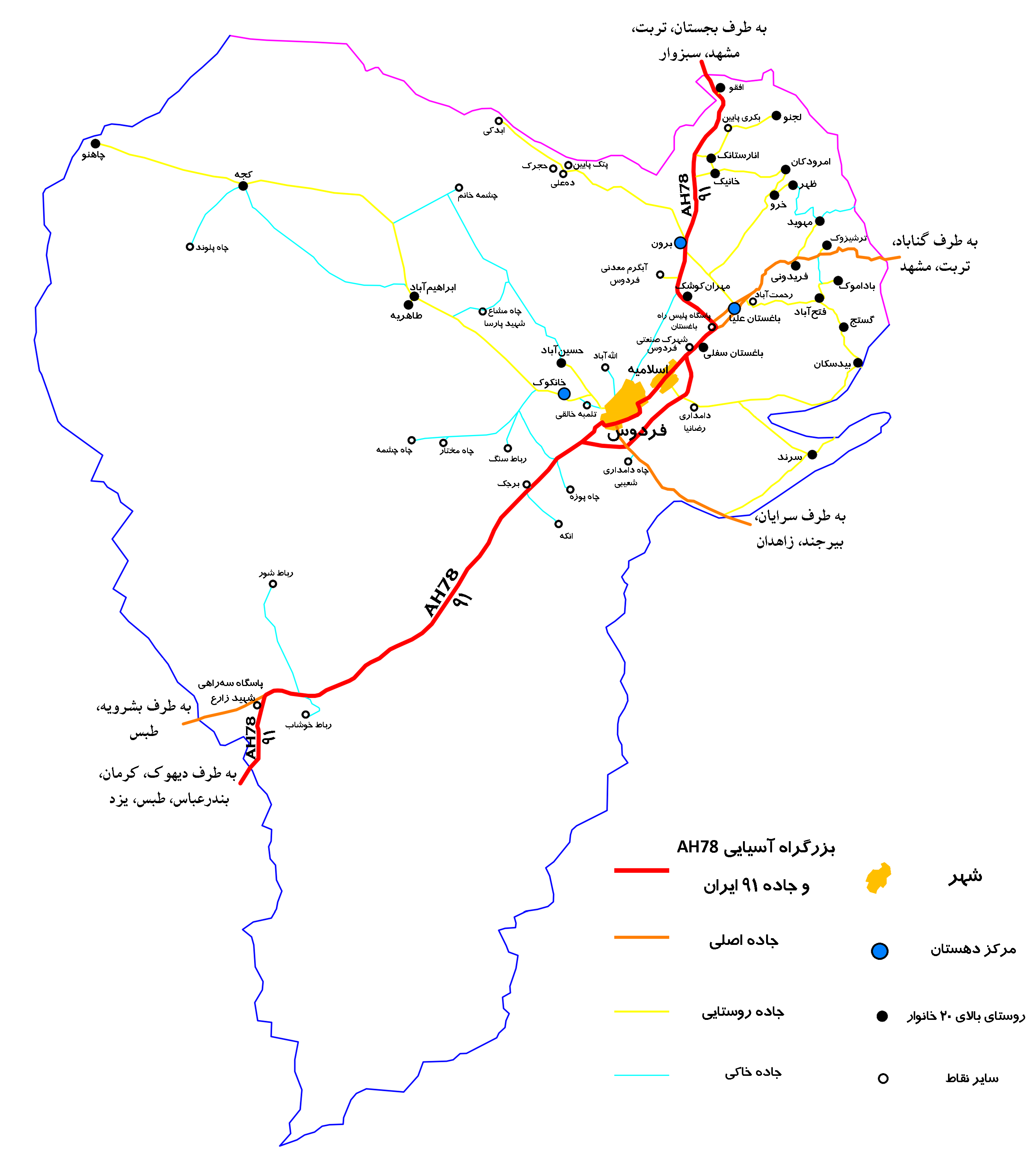 Roads in Ferdows County.